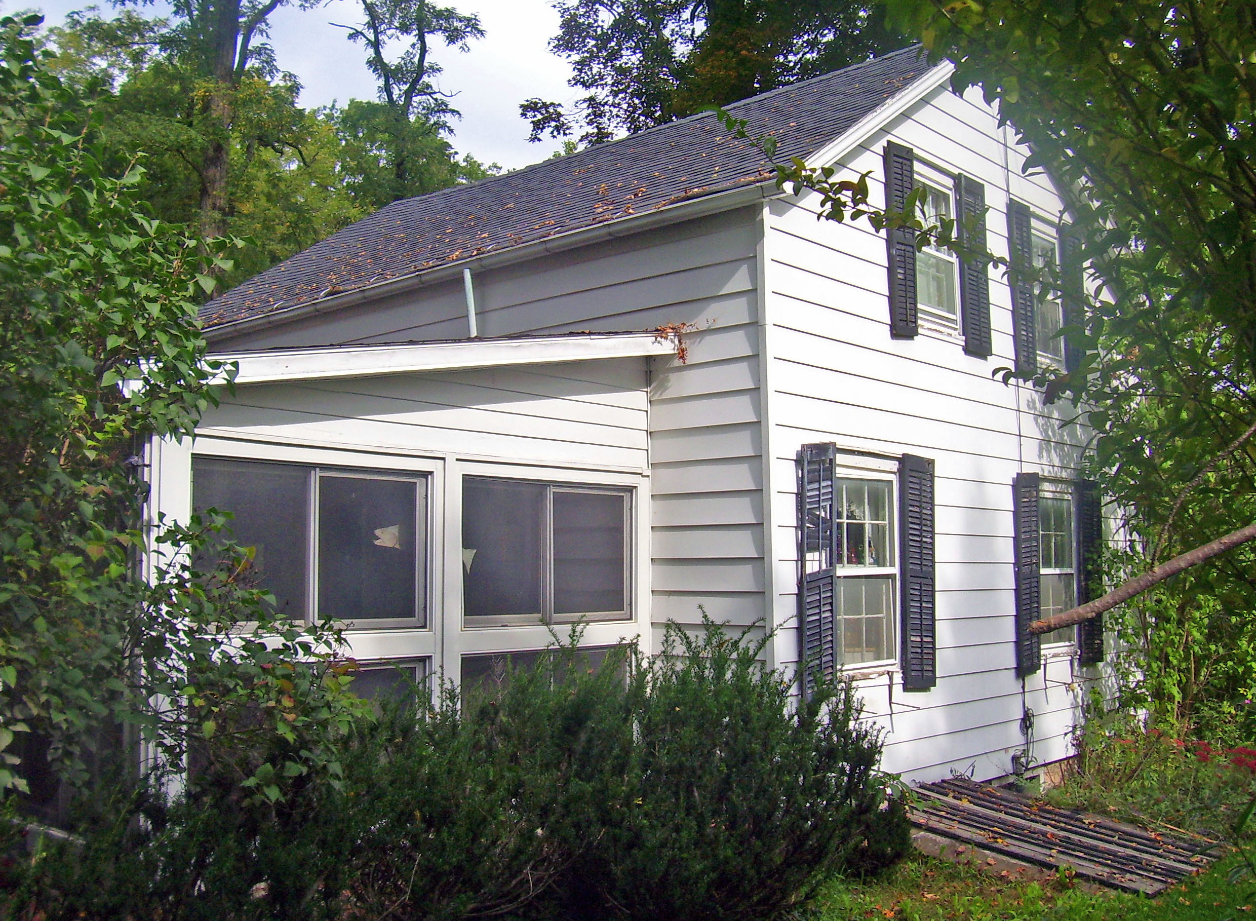 Lock Tender's House near former Lock 20 along the Delaware and Hudson Canal, High Falls, NY, USA